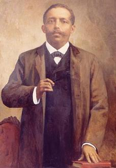 Oil on Canvas. Luis Antonio Robles, first Afro-Colombian Assemblyman (Deputy in the Magdalena Legislative Assembly), Congreeman (Member of the Chamber of Representatives, first for Magdalena, then twice for Antioquia), Cabinet Minister ("Secretary" of the Treasury and Public Credit), and Governor ("President" of Magdalena).